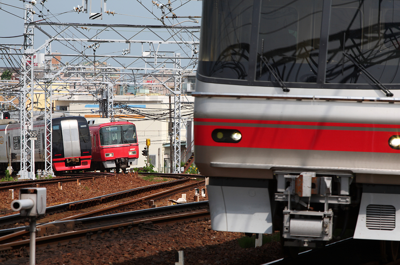 Meitetsu Biwajima Junction